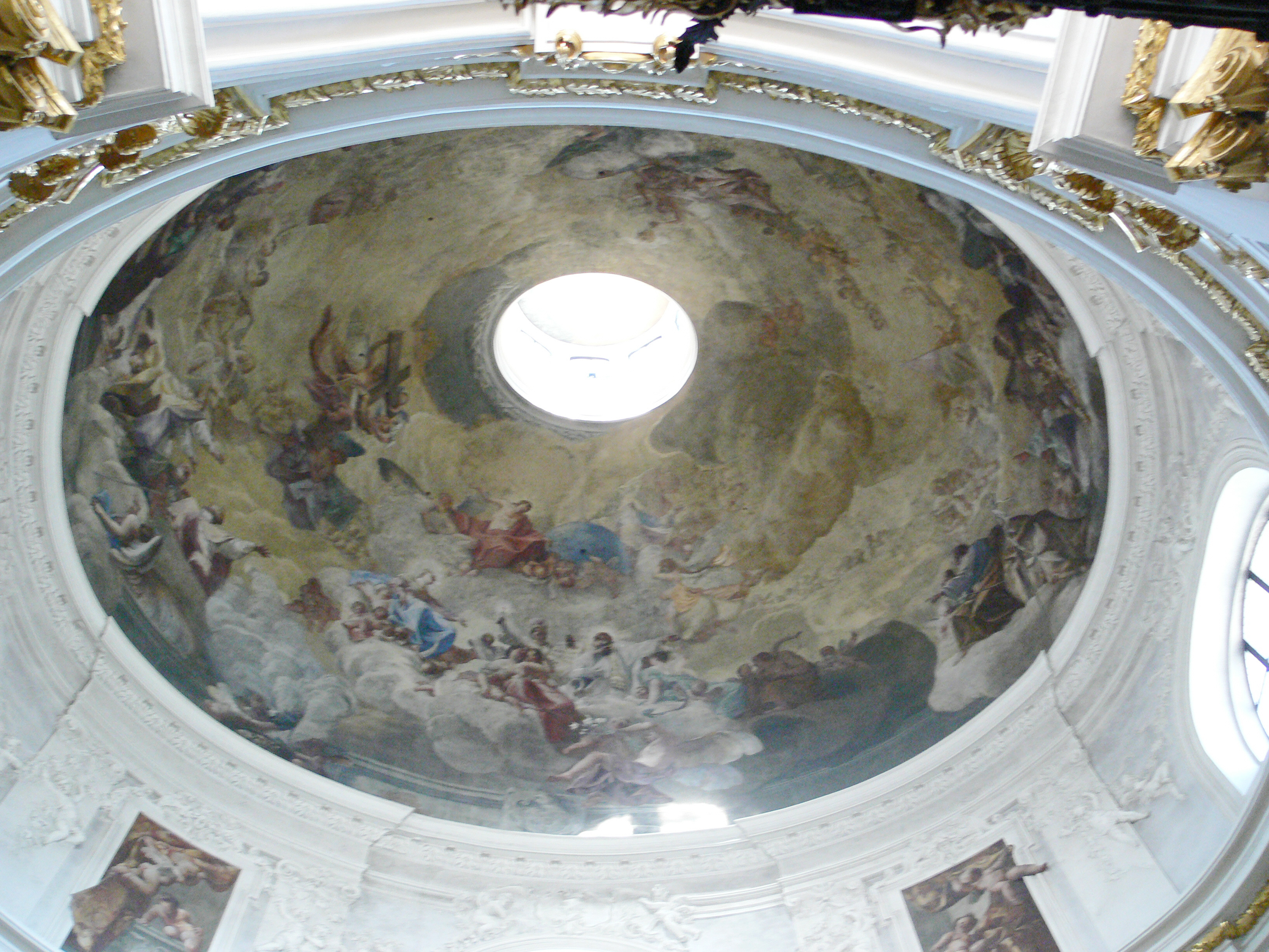 Kajetanerkirche am Kajetanerplatz, Salzburg Kuppel mit Kuppelgemälde von Paul Troger, 1728: "Glorie des hl. Kajetan" Paul Troger (1698–1762) Alternative names Troger; P. TrogerDescriptionAustrian painterDate of birth/death 30 October 1698 / 30 December 1698 20 July 1762 Location of birth/death Welsberg bei Zell im Pustertal ViennaWork location Vienna, Austria, Moravia, HungaryAuthority control : Q687059 VIAF: 13103130 ISNI: 0000 0000 6675 1537 ULAN: 500028379 LCCN: n86055520 WGA: TROGER, Paul WorldCat creator QS:P170,Q687059